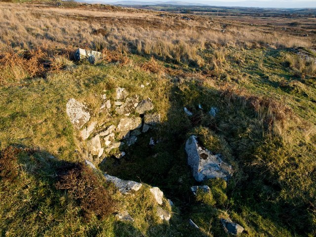 Corn Kiln Quite by chance, I came across these remains of a corn kiln near the ruins of Fellend farm. This kiln is one of the best preserved that I have seen, yet it doesn't feature on any of the OS maps, either modern or as far back as the 1846 edition.